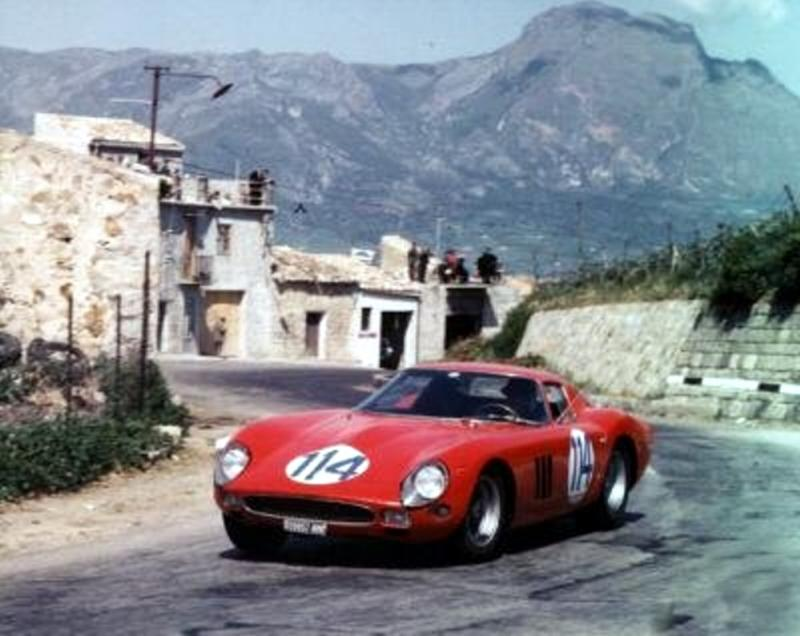 The 1962 Ferrari 250 GTO s/n 3413GT at Targa Florio on 26 Aprile 1964 driven by its owner Corrado Ferlaino of Napoli and Luigo Taramazzo (as co-driver) to a 5th place. The car has just got a new front and looked like a 1964 model (Series II)[1]